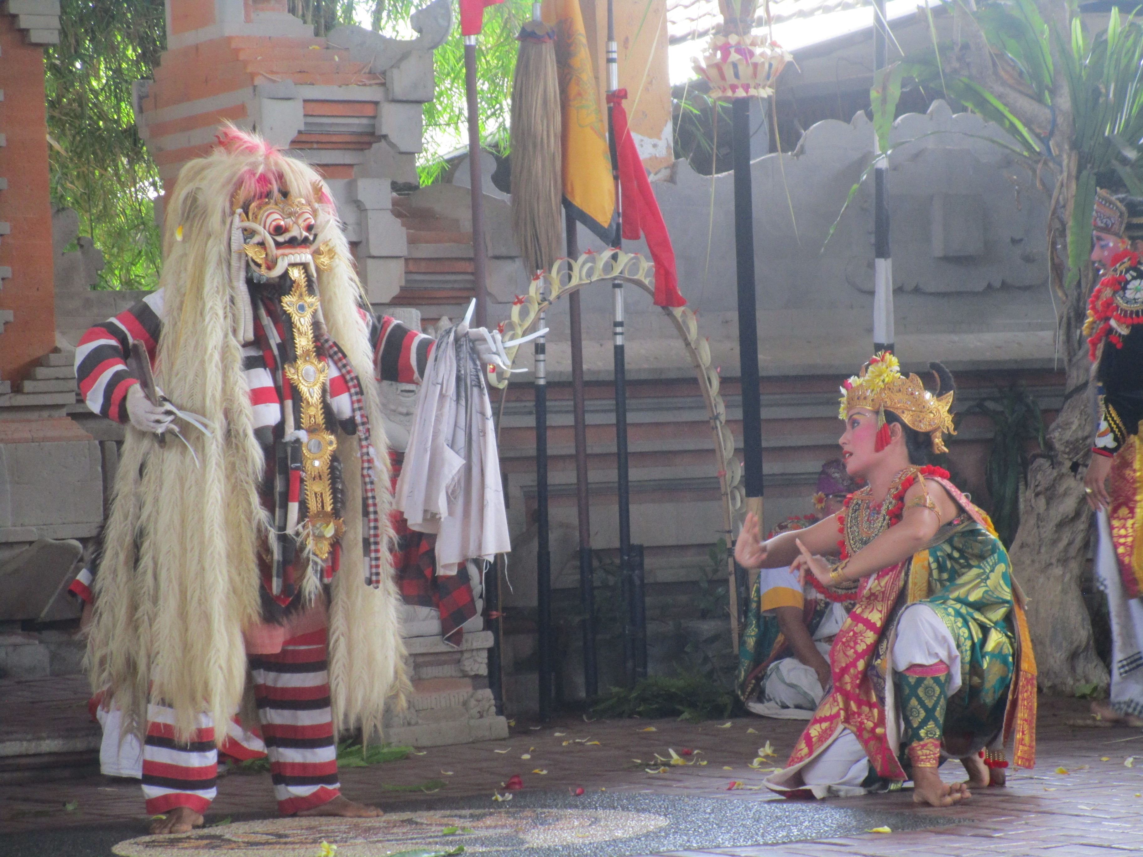 Kegiatan sakral sekaligus merupakan hiburan di bali, tari barong merupakan salah satu kesenian masyarakat bali